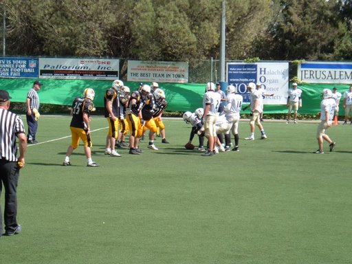 Jerusalem "Big Blue" (white) & Haifa "Real Housing" Underdogs (black) at the Israel Football League 2008 final